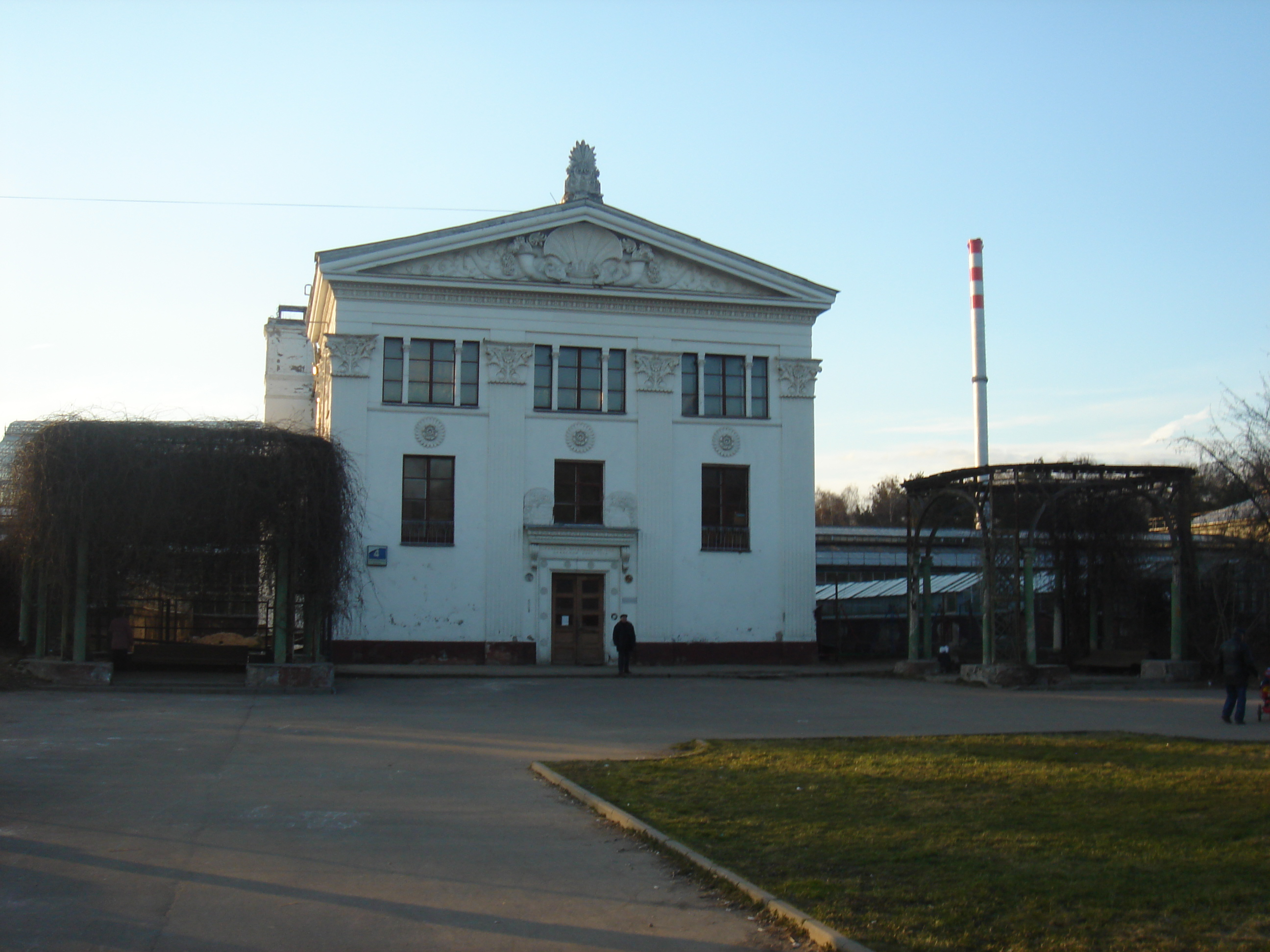 The Moscow Botanical Garden of Academy of Sciences. The Stock Greenhouse (central building)